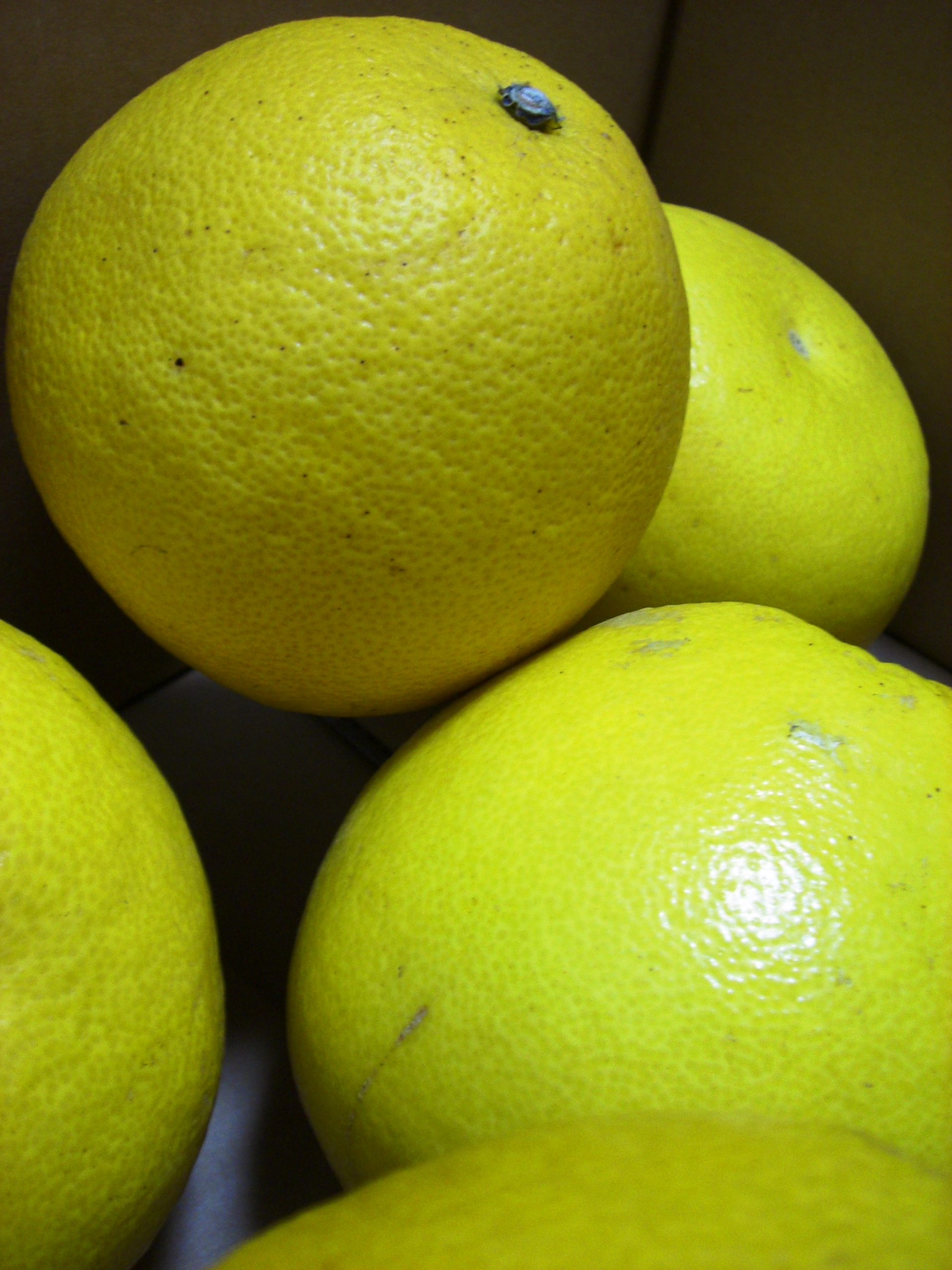 Japanese pomelo.It's from Tosa,Japan.